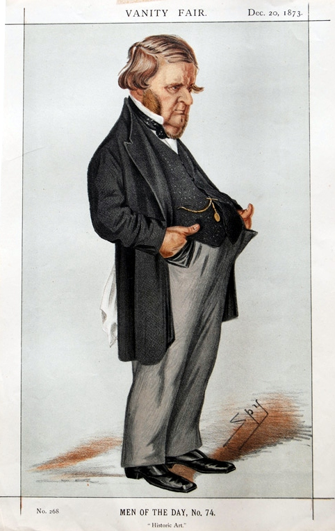 Caricature of Edward Matthew Ward. Caption read "Historic Art".